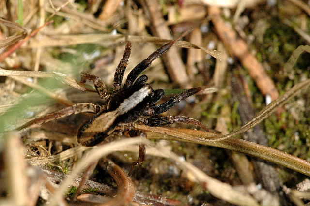 male Alopecosa pulverulenta from Commanster, Belgian High Ardennes .